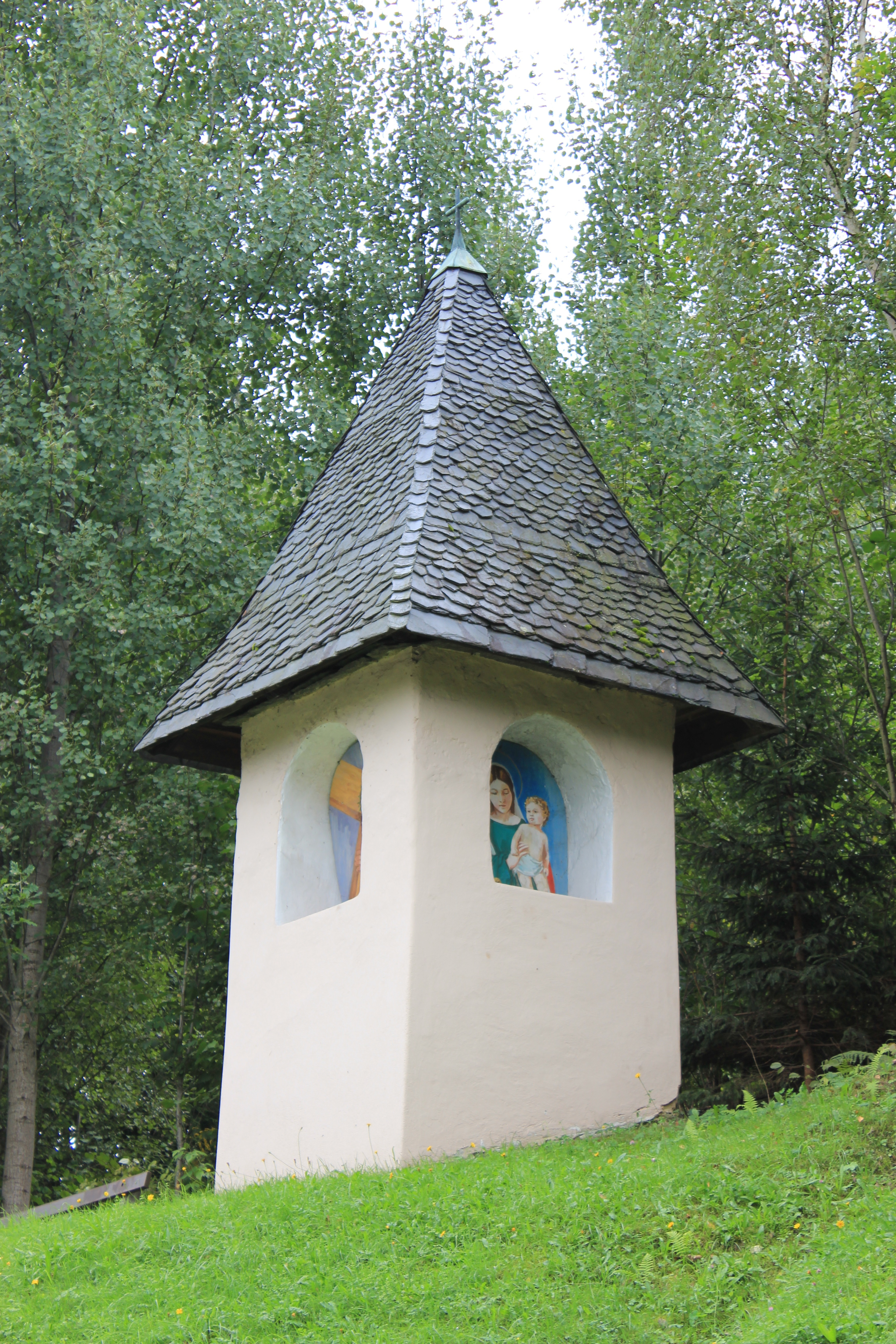 Wayside shrine in Sankt Veit an der Glan